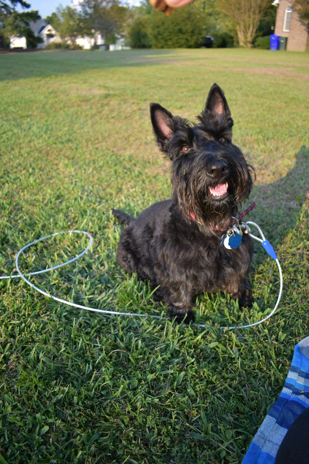 Scottish Terrier, also known as Scottie, smiling. Show the breeds distinctive beard.